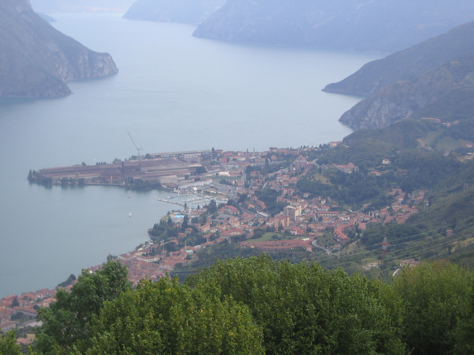 Lovere and Castro, Bergamo, Italy